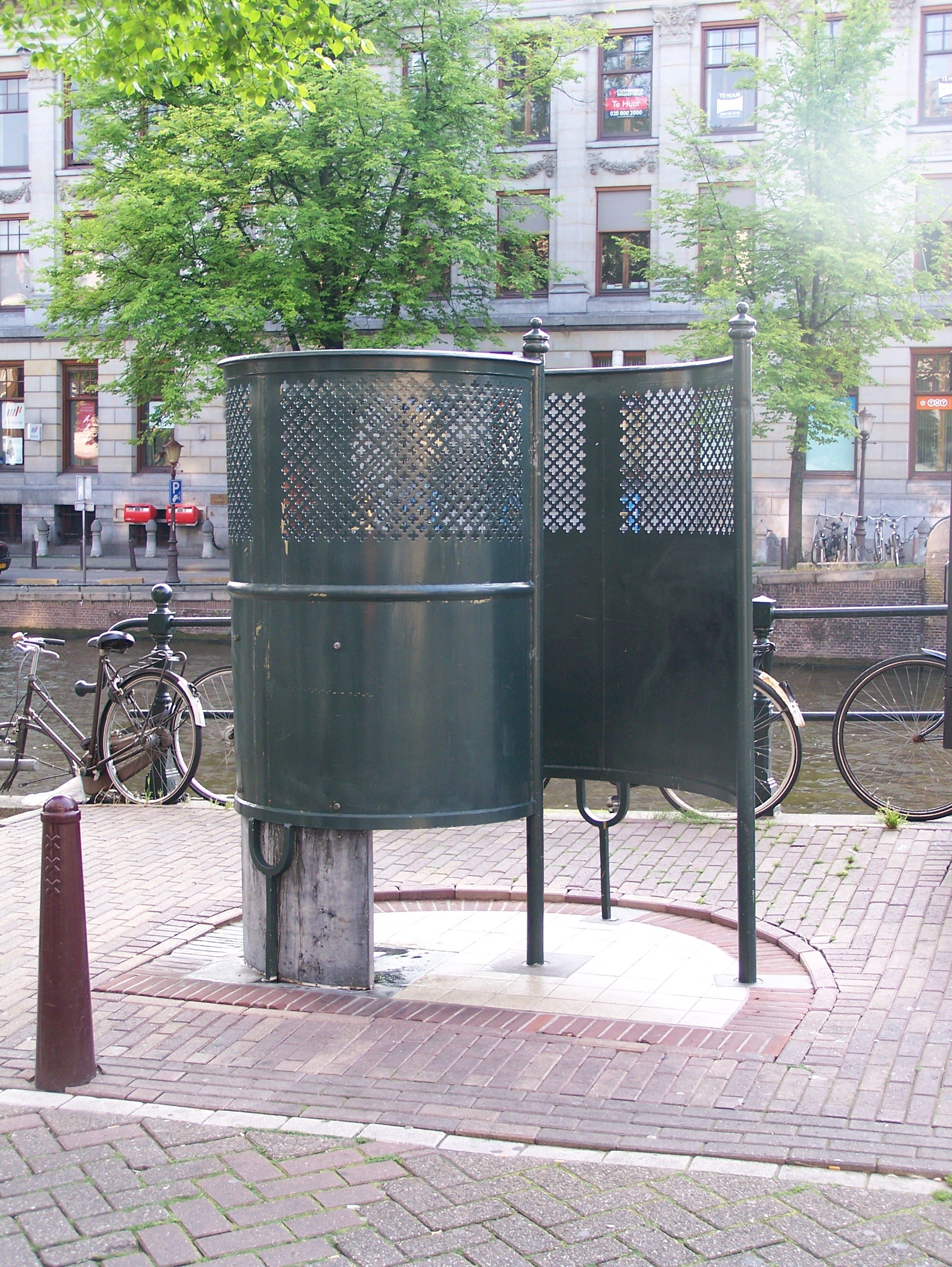 Public toilet in Amsterdam. Single krul. A design by Jan van der Mey around 1915.